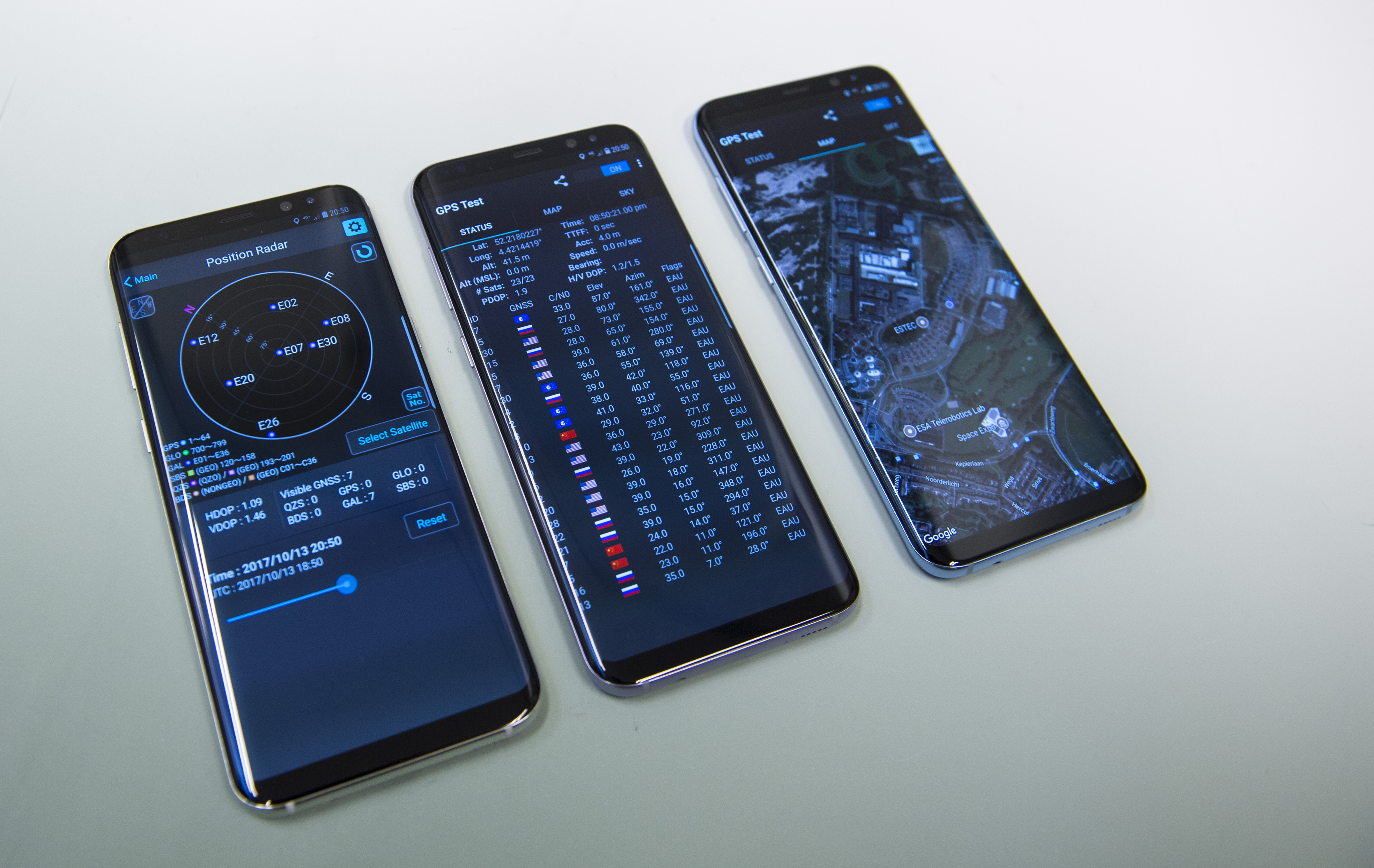 Europe’s Galileo satellite navigation system seen at work with commercially available Samsung S8+ smartphones. The sky has been full of Galileo signals since Europe’s satnav system began Initial Services at the end of last year, and a steady stream of Galileo-ready devices is finding its way to the marketplace. This has been underpinned with years of effort by ESA’s Navigation Laboratory, working with European manufacturers of mass-market satnav chips and receivers as well as ESA’s Galileo team in cooperation with the European Global Navigation Satellite System Agency. Industry responded to Initial Services by making the first Galileo-enabled smartphones available to the public. The list of available devices includes phones from Apple, BQ, Huawei, Samsung and Sony. Check theUse Galileo website regularly for an up-to-date list of Galileo-ready products. ESA’s Navigation Lab began working with manufacturers in 2013, making their facilities available fortesting prototypes.